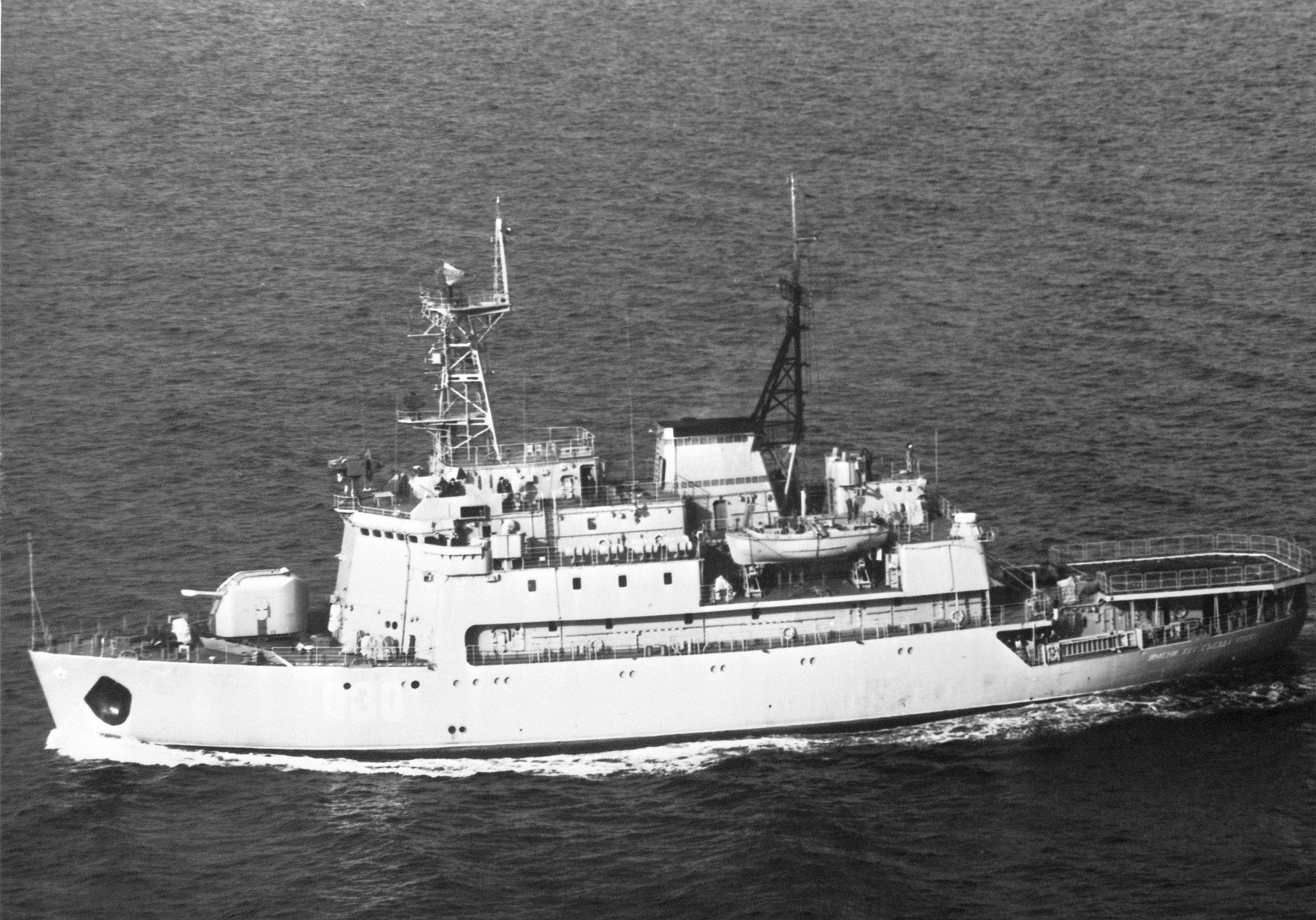 Aerial port bow view of Soviet Ivan Susanin class armed icebreaker Imeni XXV sezda KPSS underway.